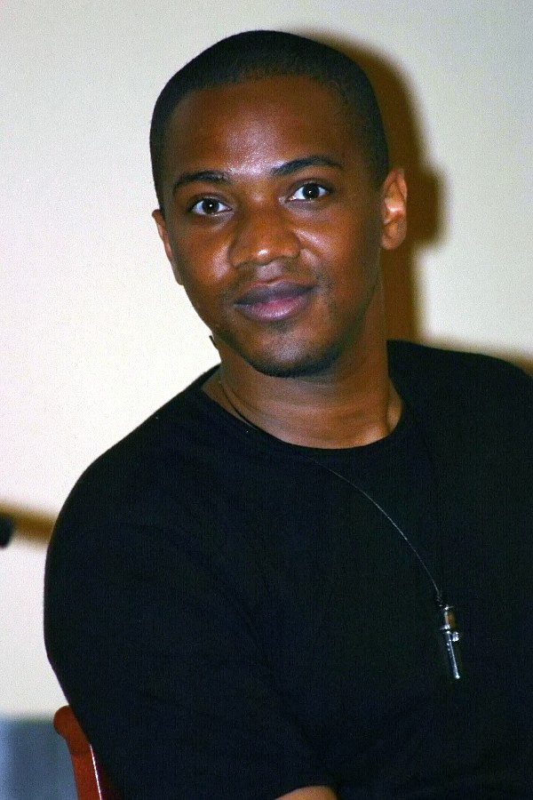 J. August Richards at the 2004 Tampa SlayerCon.